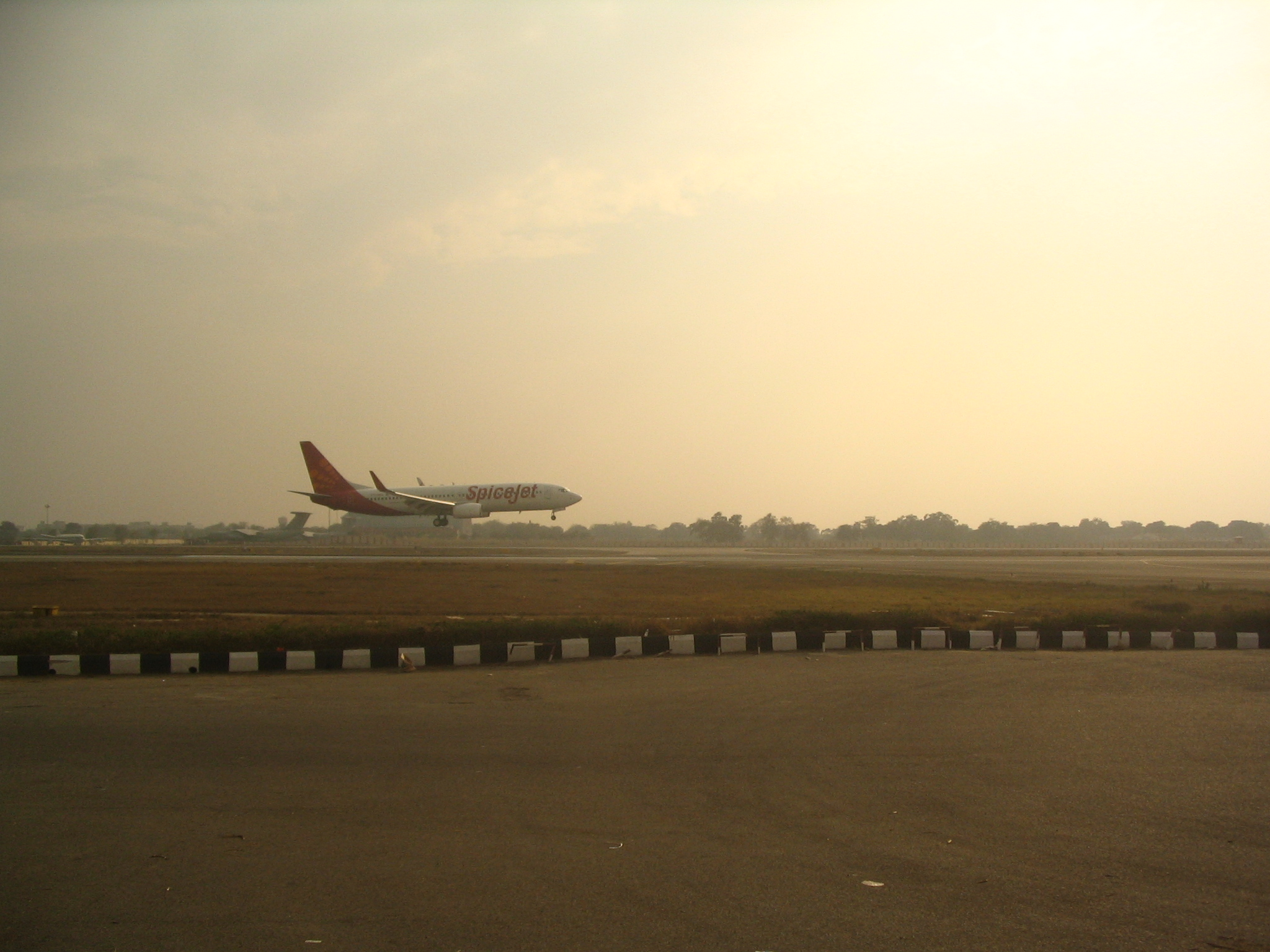 SpiceJet aircraft landing at Indira Gandhi International Airport, New Delhi, India